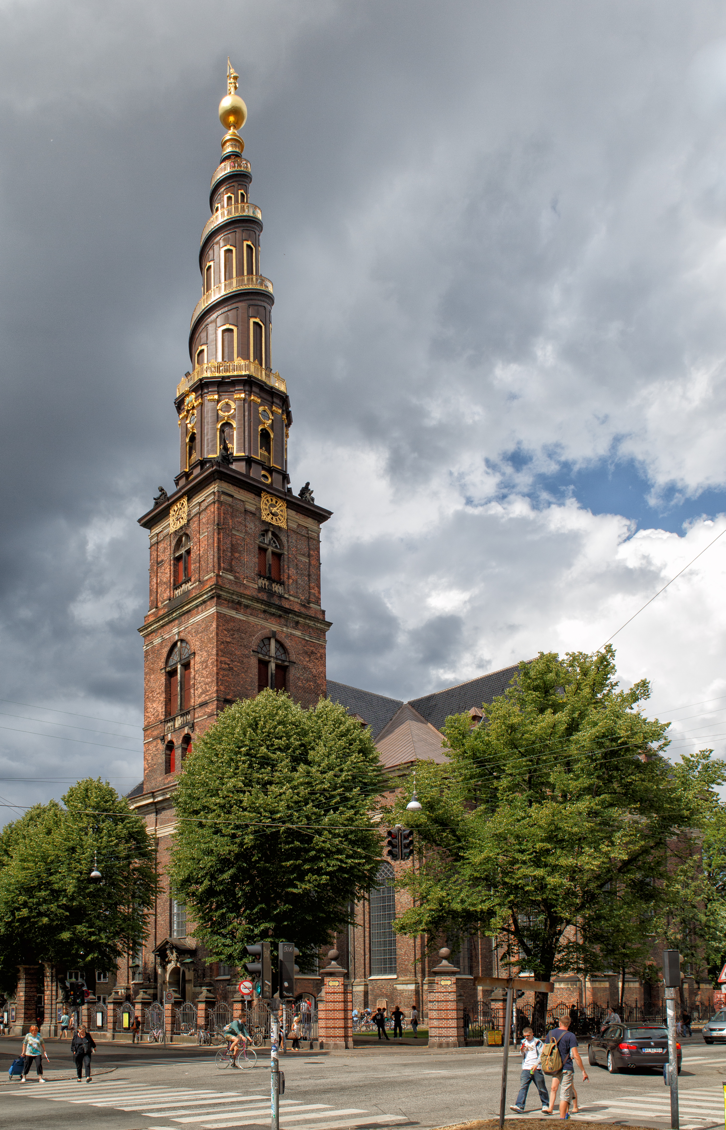 Copenhagen - Church of Our Saviour - 2013